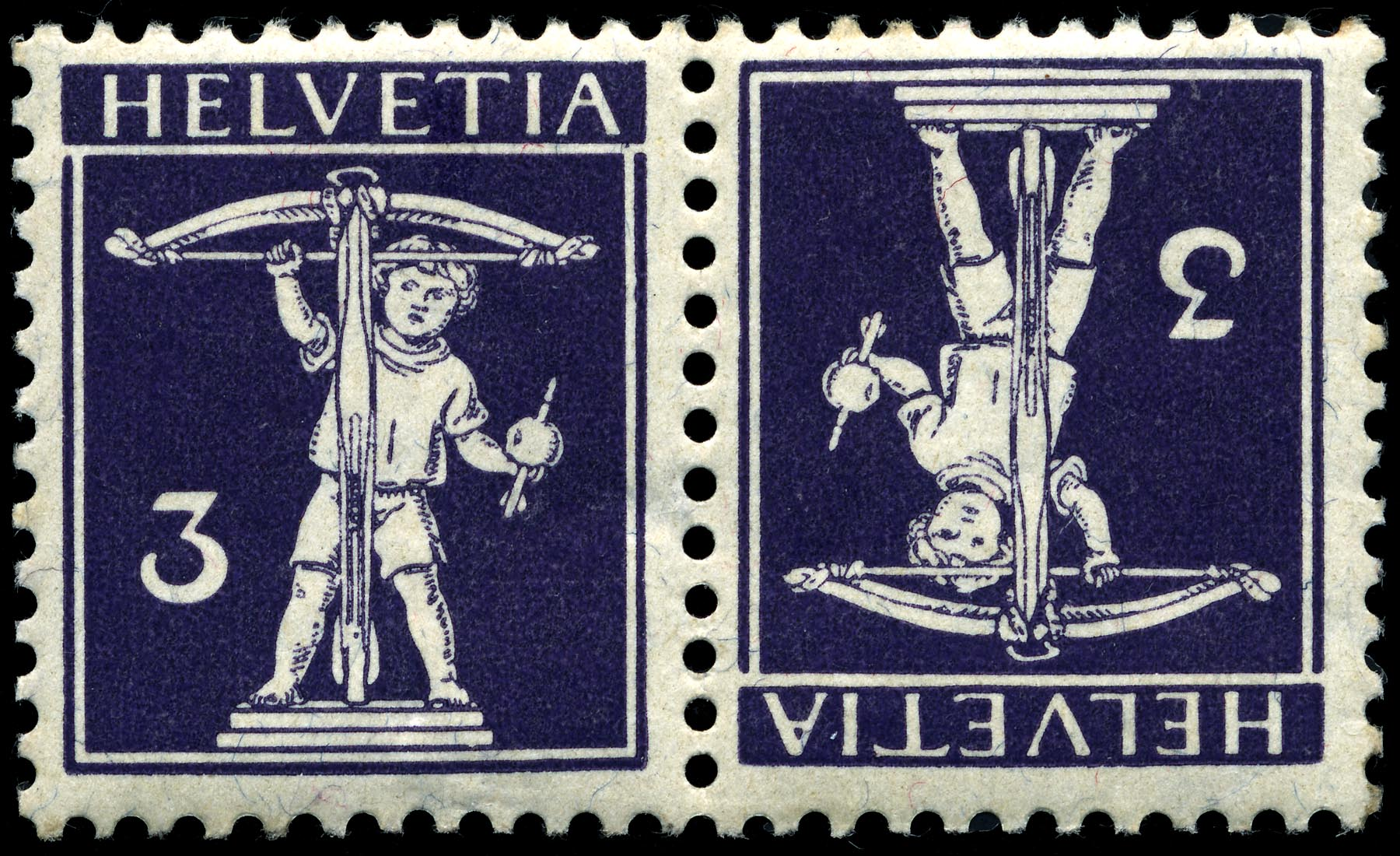 Tete-beche pair of Switzerland 10c stamp of 1910 Catalogue: Zs. K6, Mi. K7 Design: Albert Welti